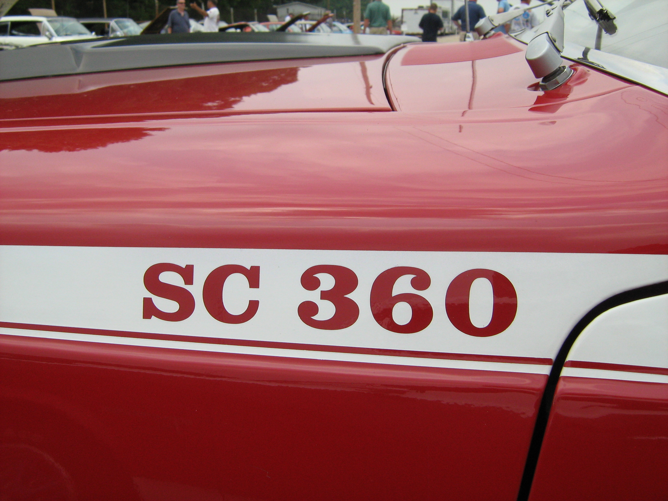 Detail of the SC 360 model identification on the side stripe of 1971 AMC Hornet, a compact "muscle car" that was made by American Motors Corporation (AMC). This two-door sedan was an economical factory-ready model for on-road performance and drag racing. The standard engine was AMC's 360 cu in (5.9 L) V8. Photograph taken at Potomac Ramblers Club's 2011 all AMC Drag Race Day held at the Capitol Raceway, an NHRA sanctioned, 1/4 mile, asphalt and concrete, drag strip located in Crofton, Maryland.